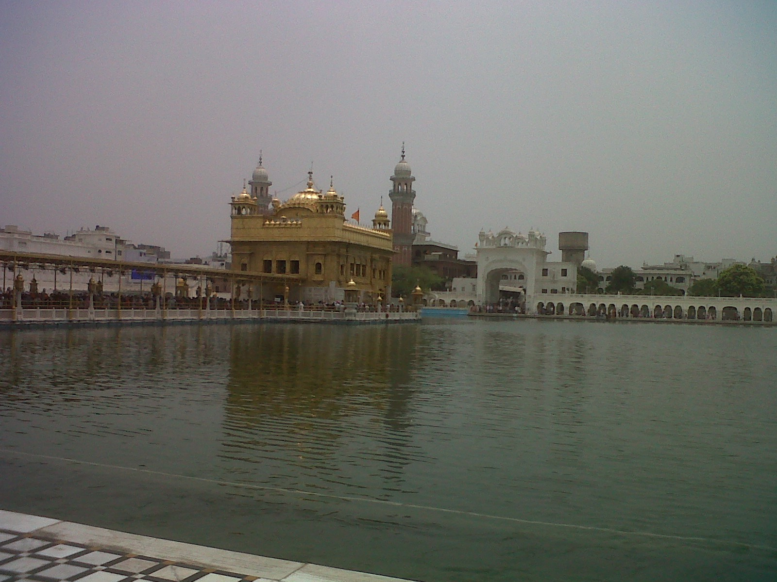 The Harmandir Sahib also Darbar Sahib and informally referred to as the "Golden Temple" is a prominent Sikh Gurdwara located in the city of Amritsar, Punjab, India. It was built by the fifth Sikh guru, Guru Arjan, in the 16th Century.